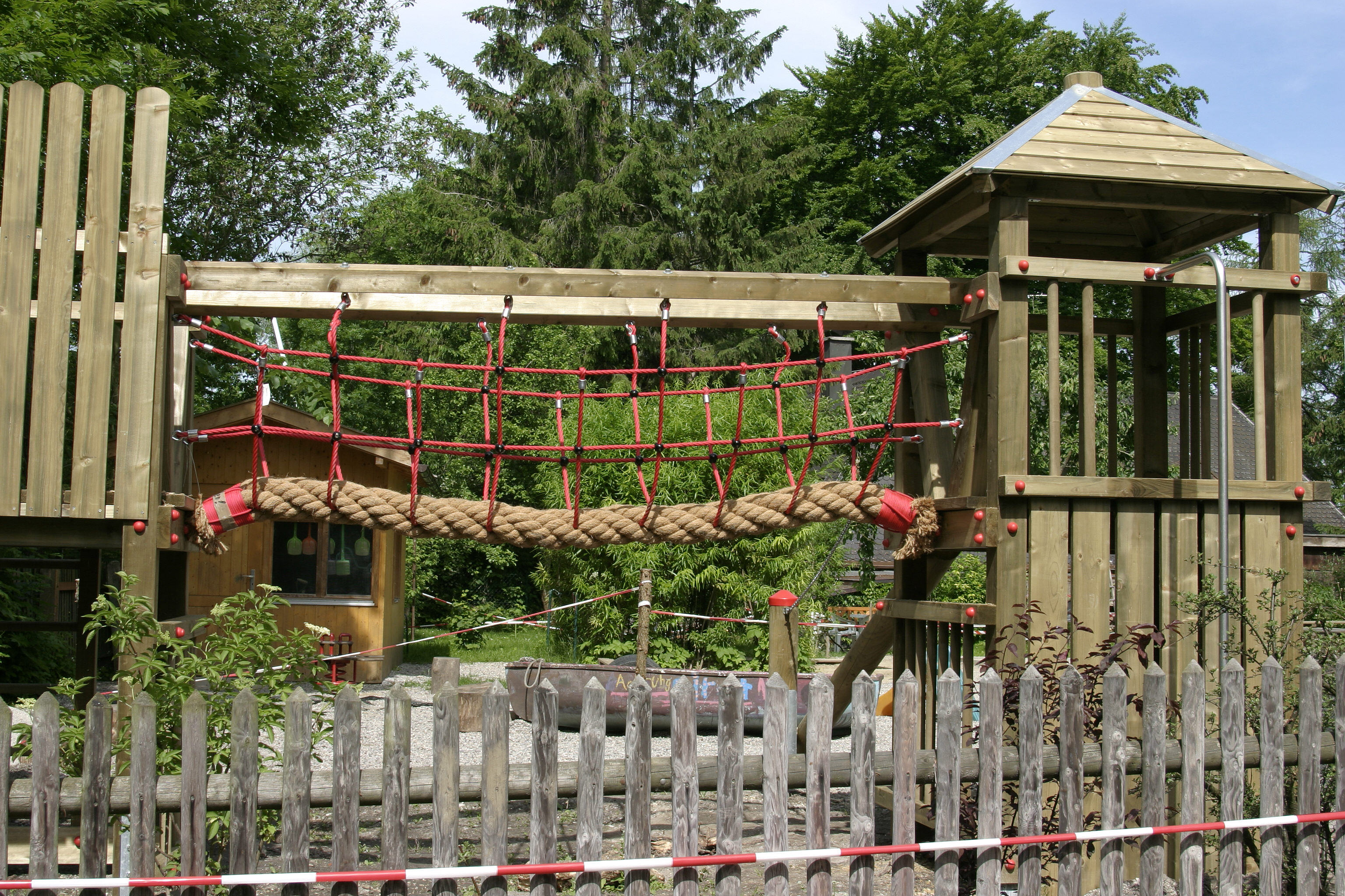 Children’s playground - Suspension bridge